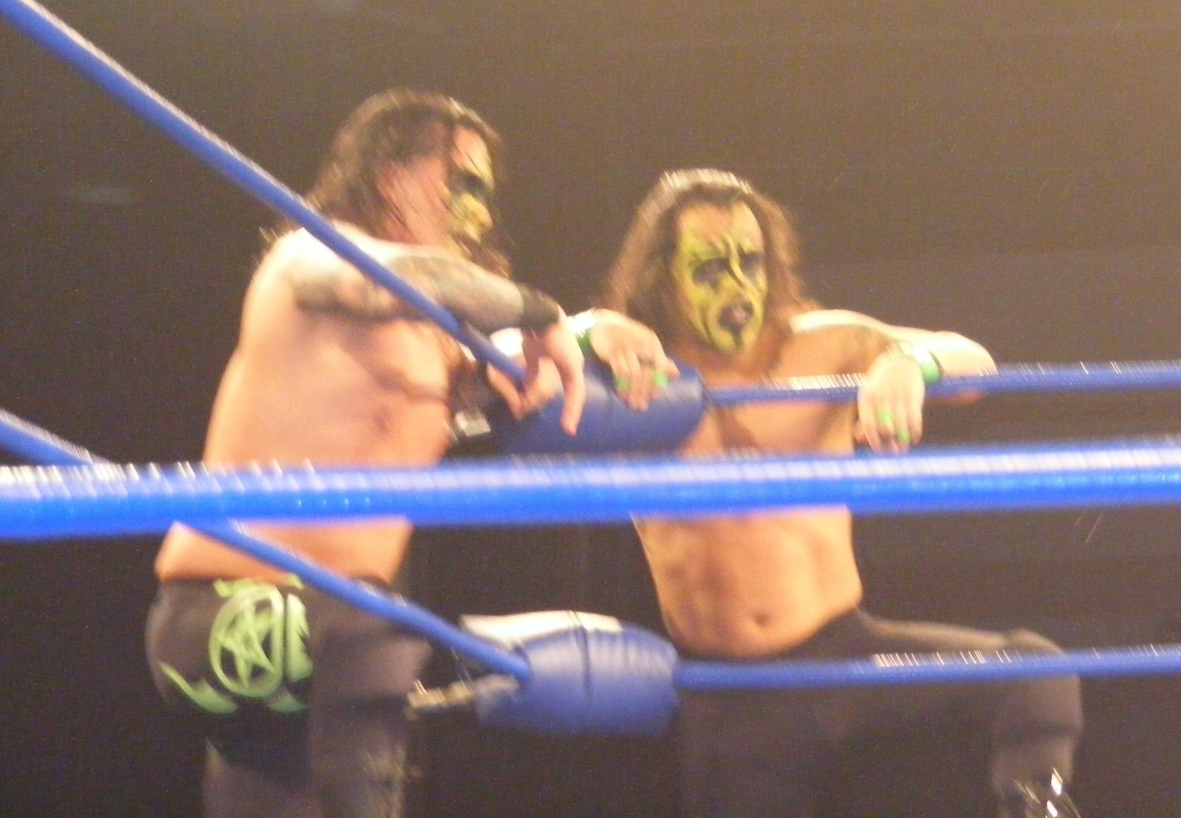 Professional wrestlers Obariyon and Kodama at Chikara King of Trios 2011.